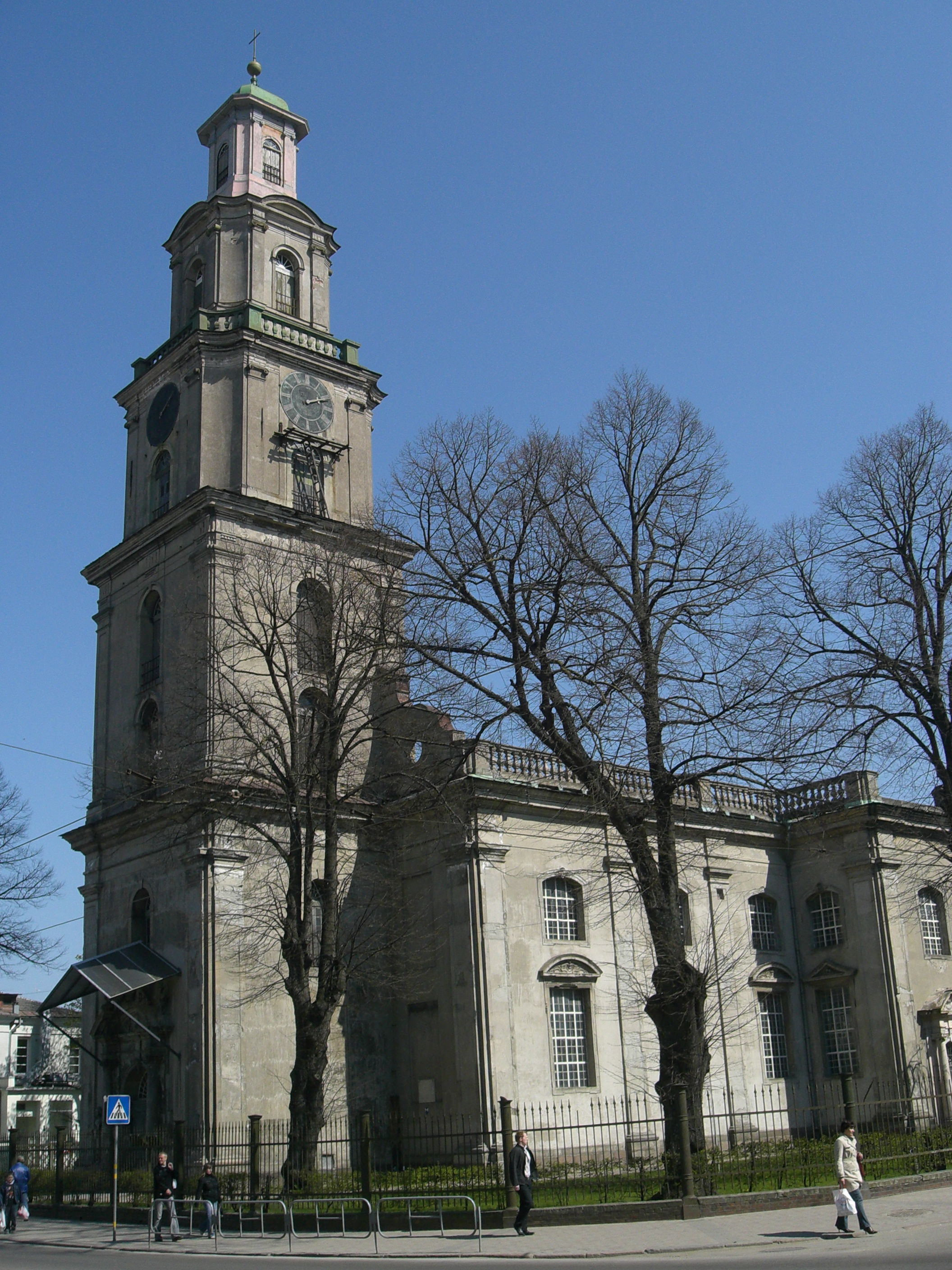 Liepāja town, Latvia. Holy Trinity Lutheran Cathedral